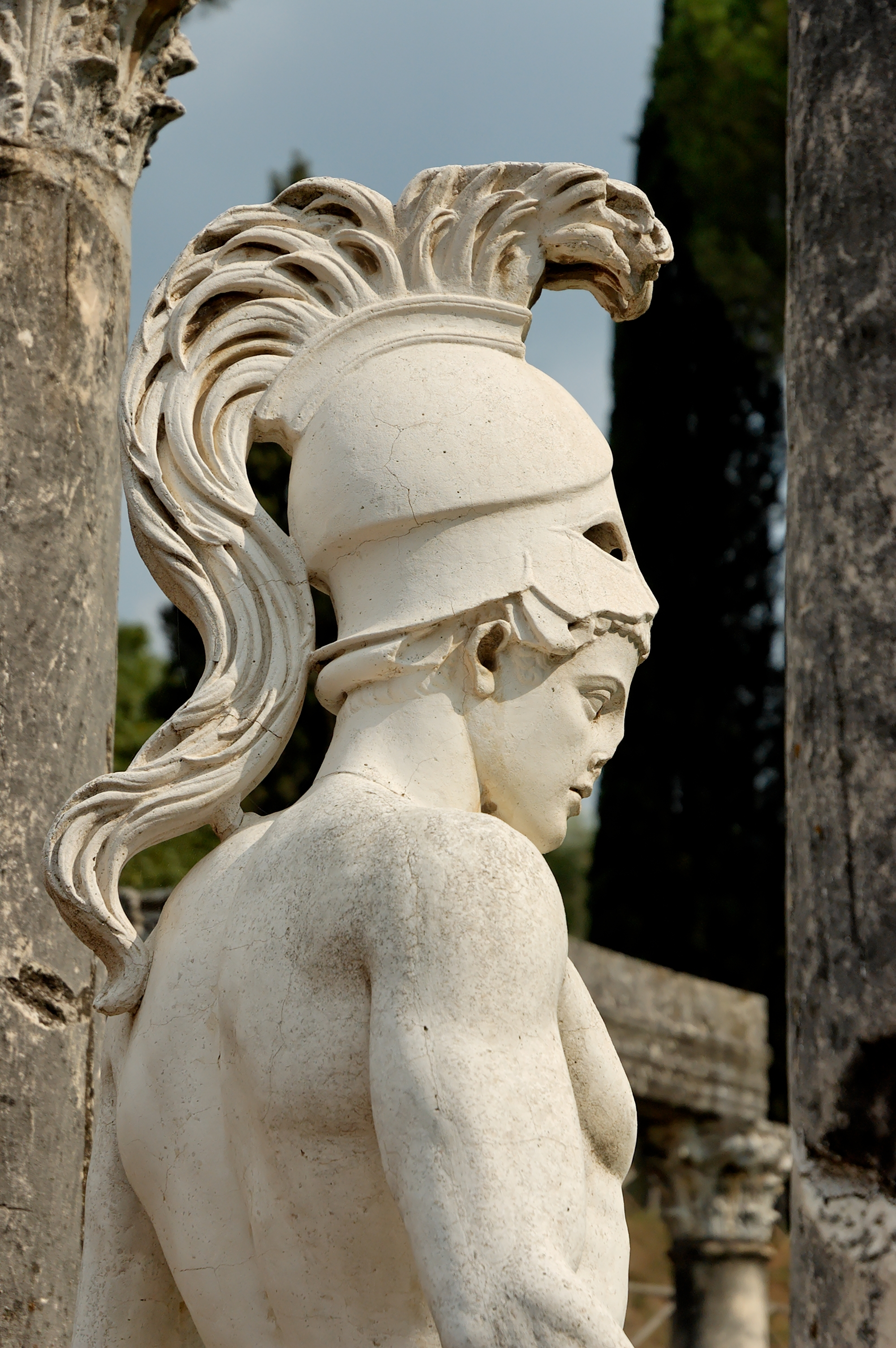 Helmeted young warrior, so-called Ares. Roman copy from a Greek original—this is a plaster replica, the original is now stored in the Museum of the Villa. Canope at the Villa Adriana in Tivoli.